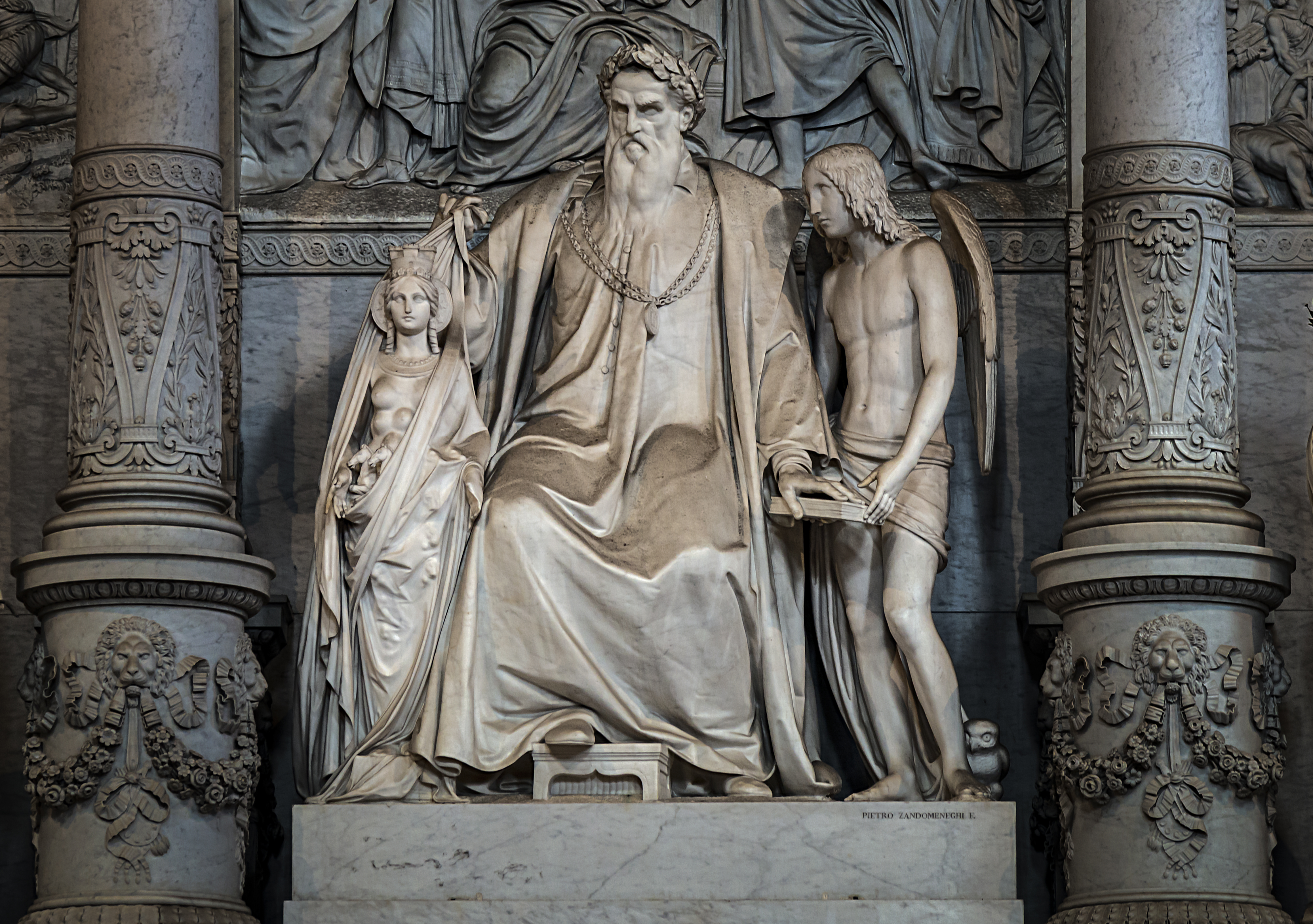 The Basilica di Santa Maria Gloriosa dei Frari, monument to Titian. Titian had wished to be buried in the Basilica of the Frari. He was buried at the monument dedicated to him on August 27, 1576. The monument is made of Carrara marble, At the center of the monument: the statue crowned with laurels Titian is accompanied by the allegories of universal nature, the spirit of knowledge. The statues are the work of Pietro Zandomeneghi, Canova disciples. The monument was restored in 1996.